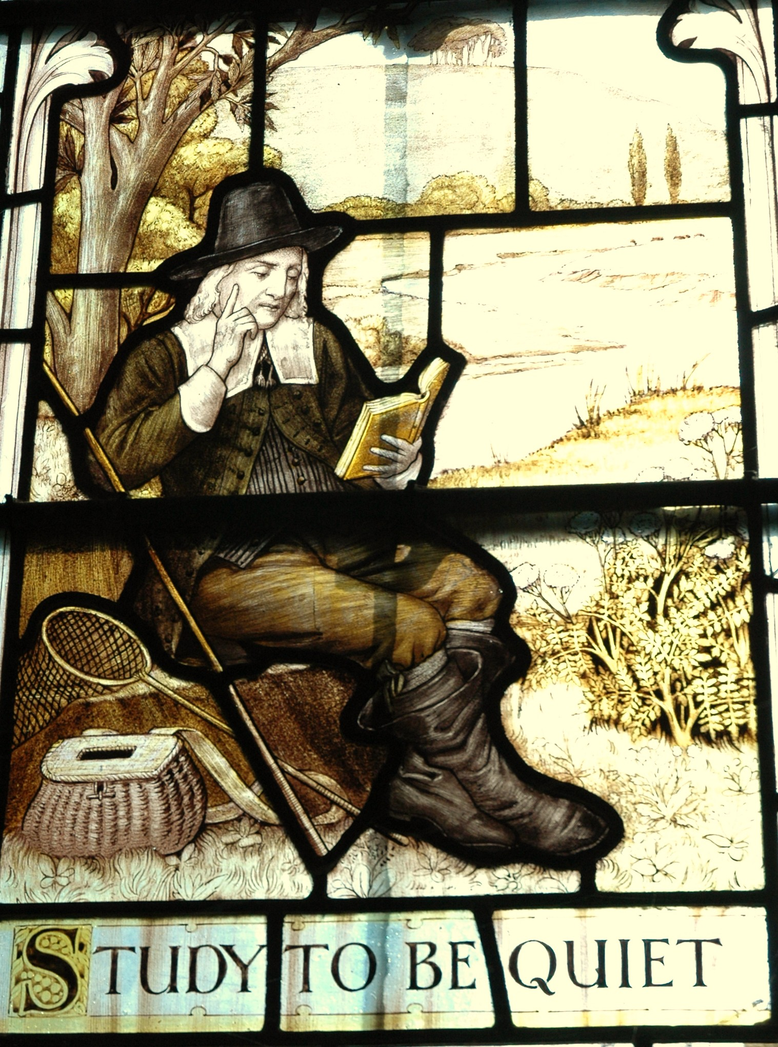 Catedral de Winchester - Izaac Walton